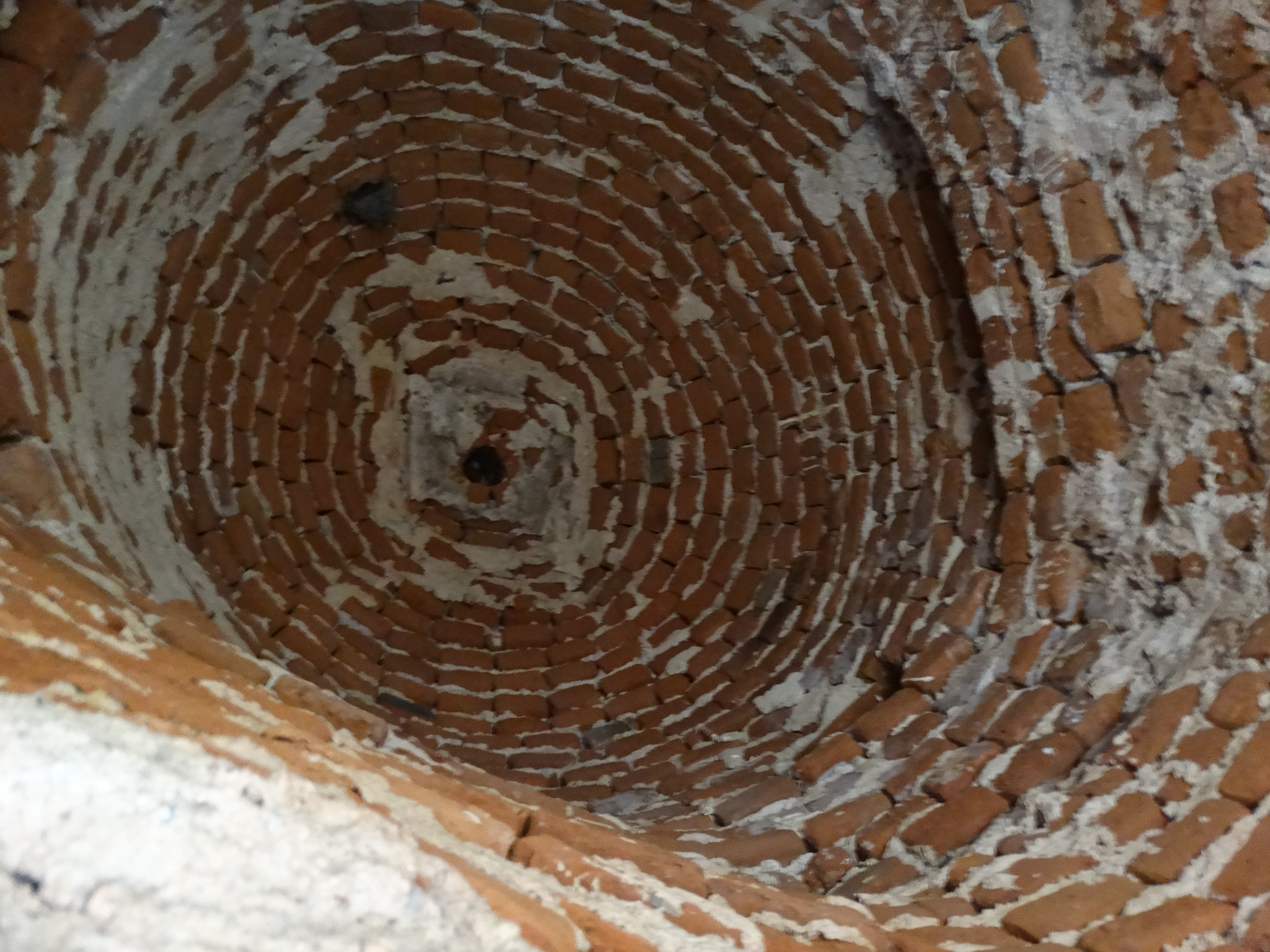 Wayside shrine, interior, Normainiai II, Jonava district, Lithuania